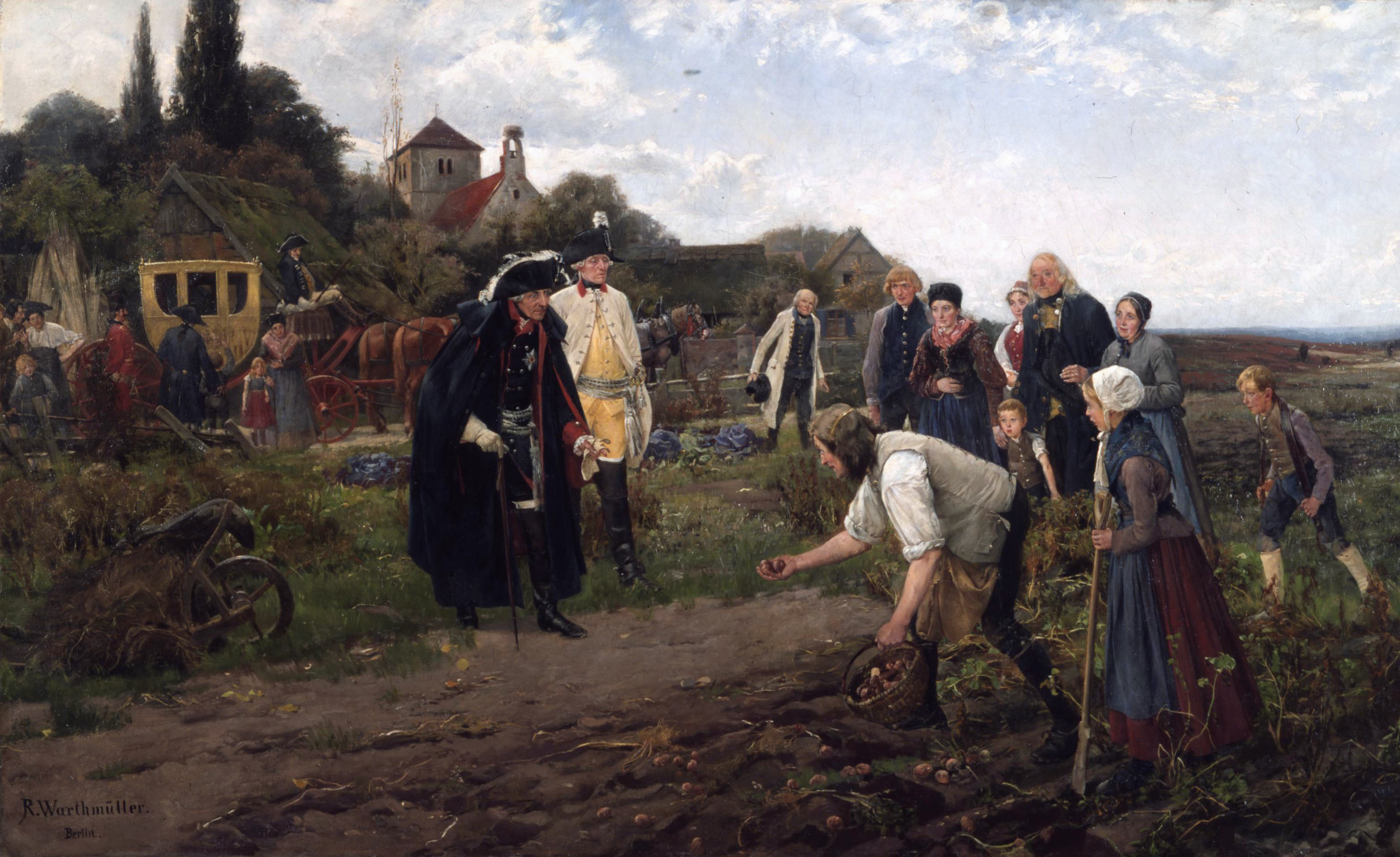 Frederick the Great of Prussia examines the potato harvest